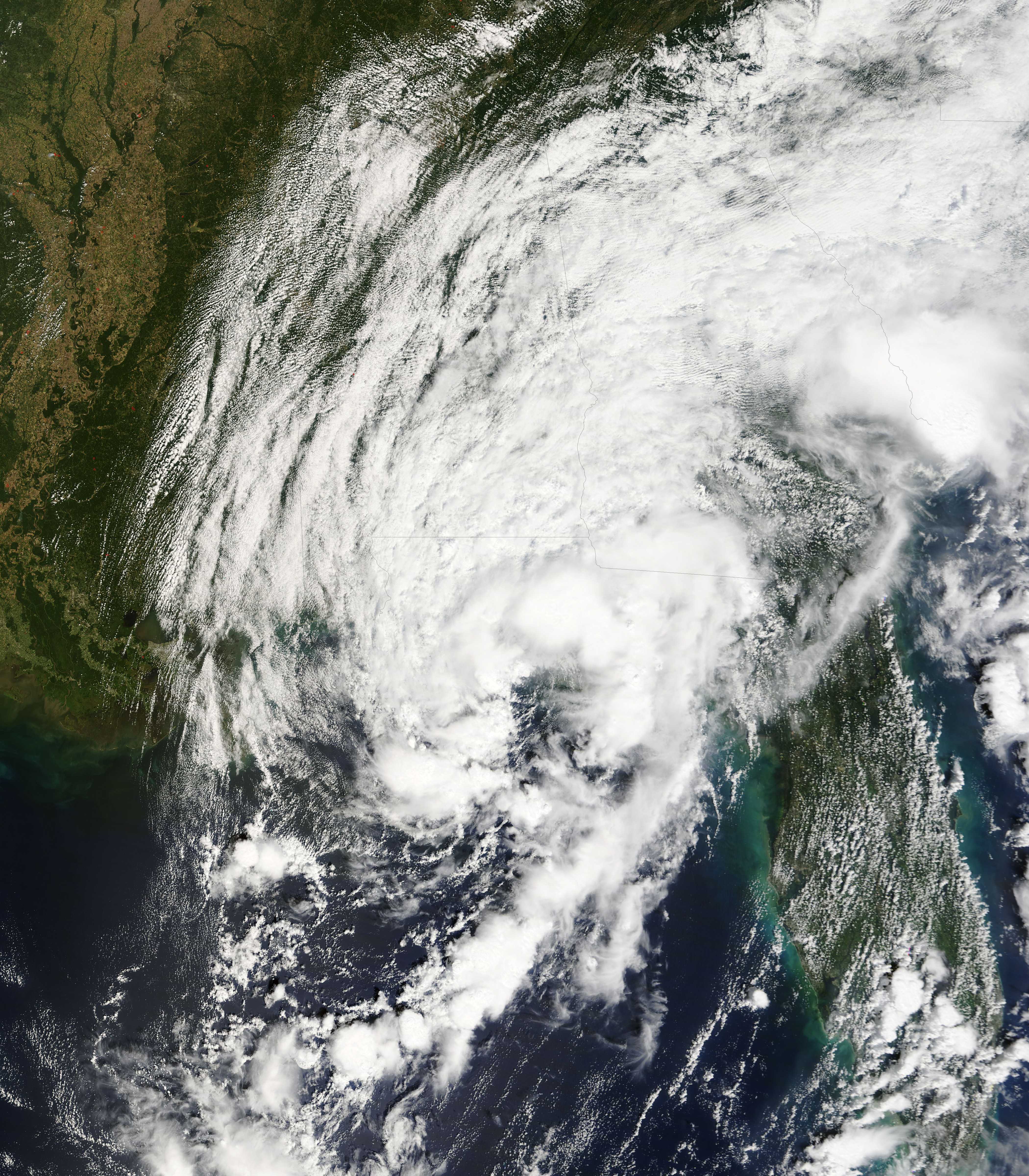 Tropical Depression Ten at approximately 1650 UTC, as seen by the MODIS instrument aboard NASA's Terra satellite.